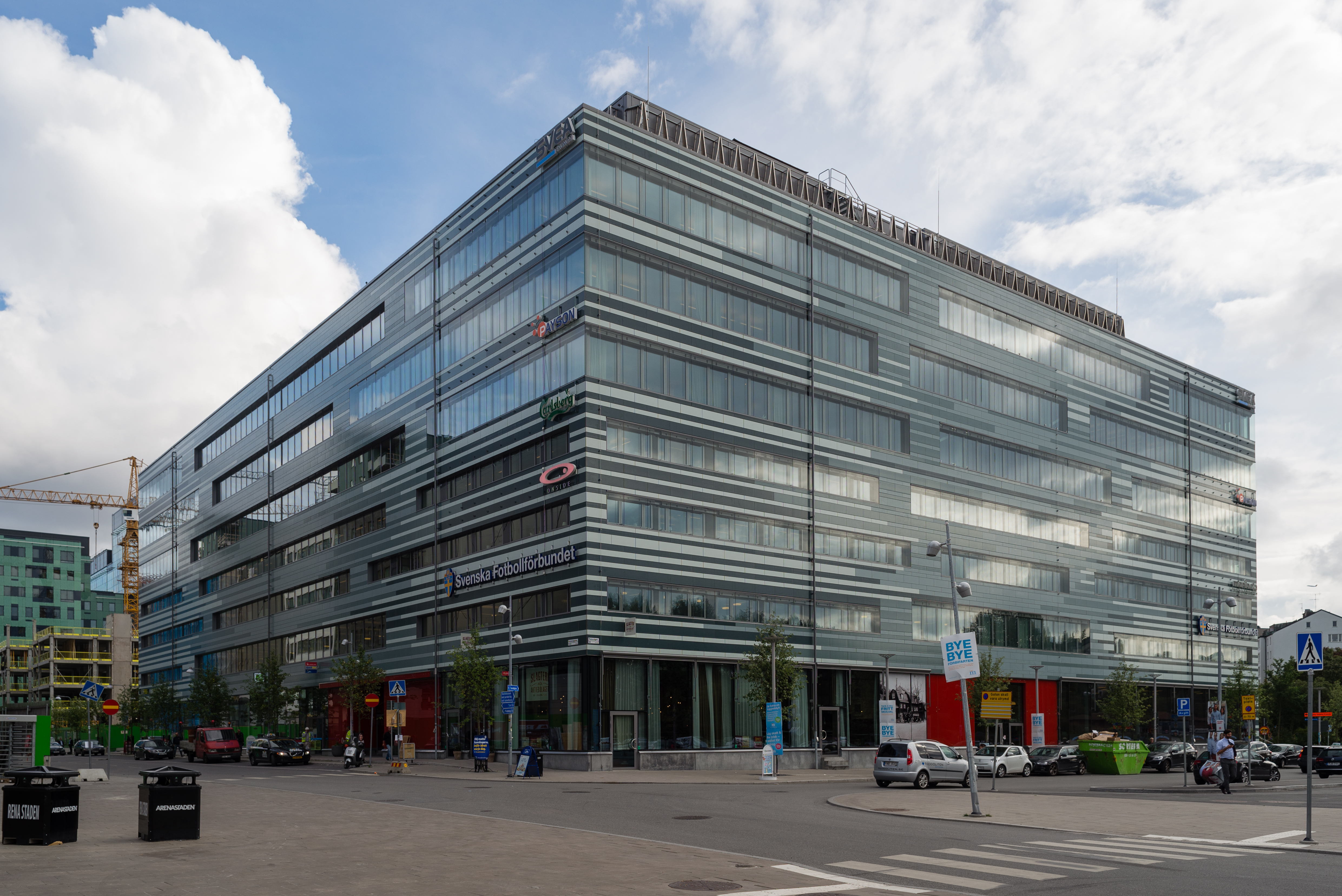 Office building in Arenastaden, Solna (Stockholm). Headquarters of the Swedish Football Association.